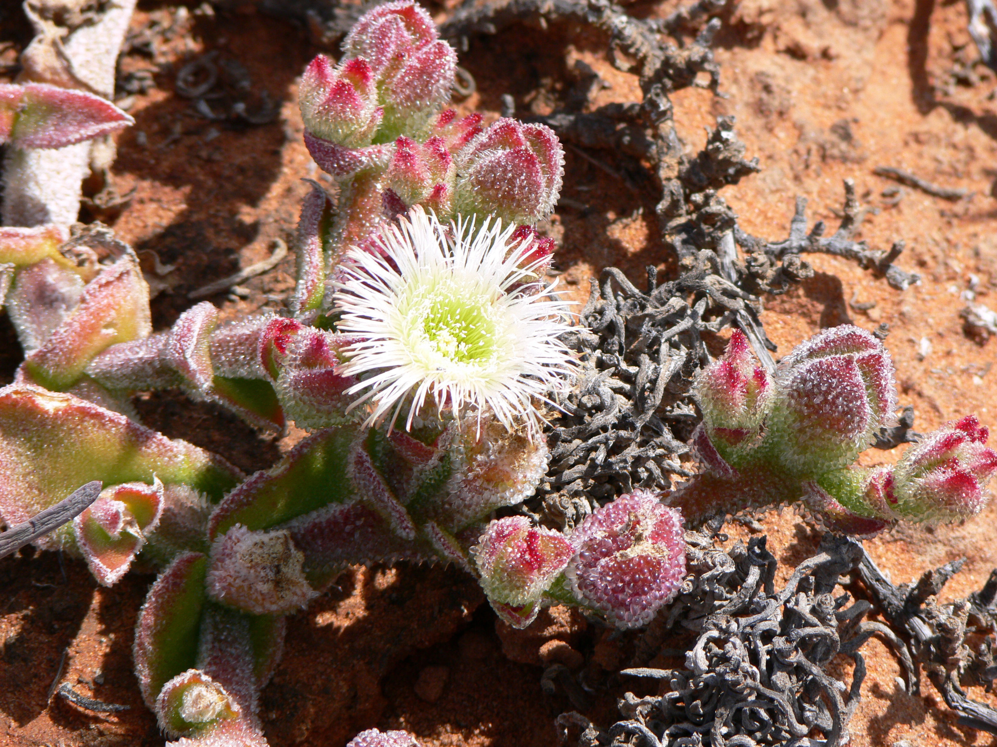 Iceplant Mesembryanthemum crystallinum L. , flowering Desert, Namaqualand, Port Nolloth, Northern Cape, South Africa